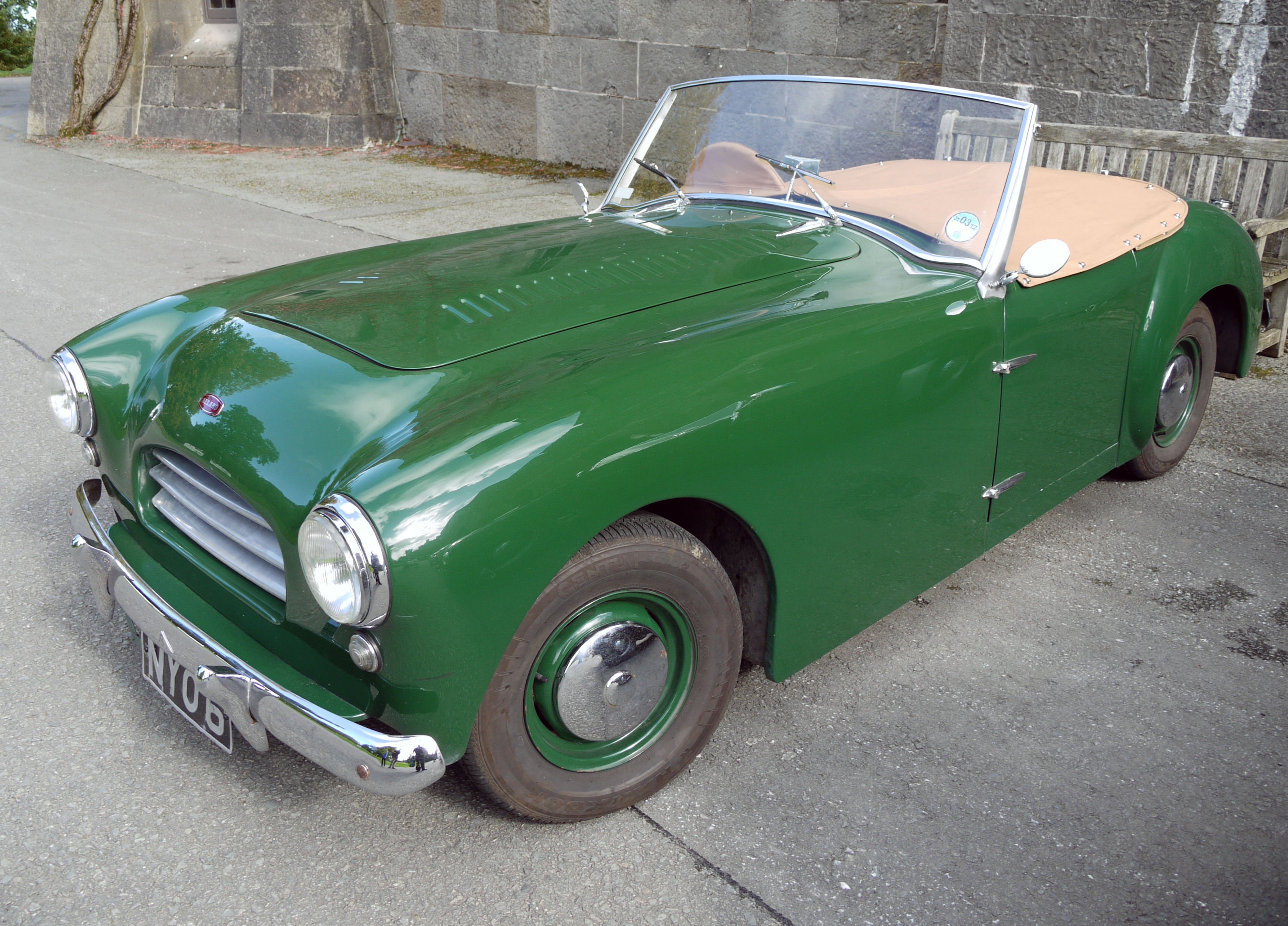 An Allard Palm Beach with the 2.3 litre Zephyr six, seen at Penrhyn Castle, Bangor, North Wales